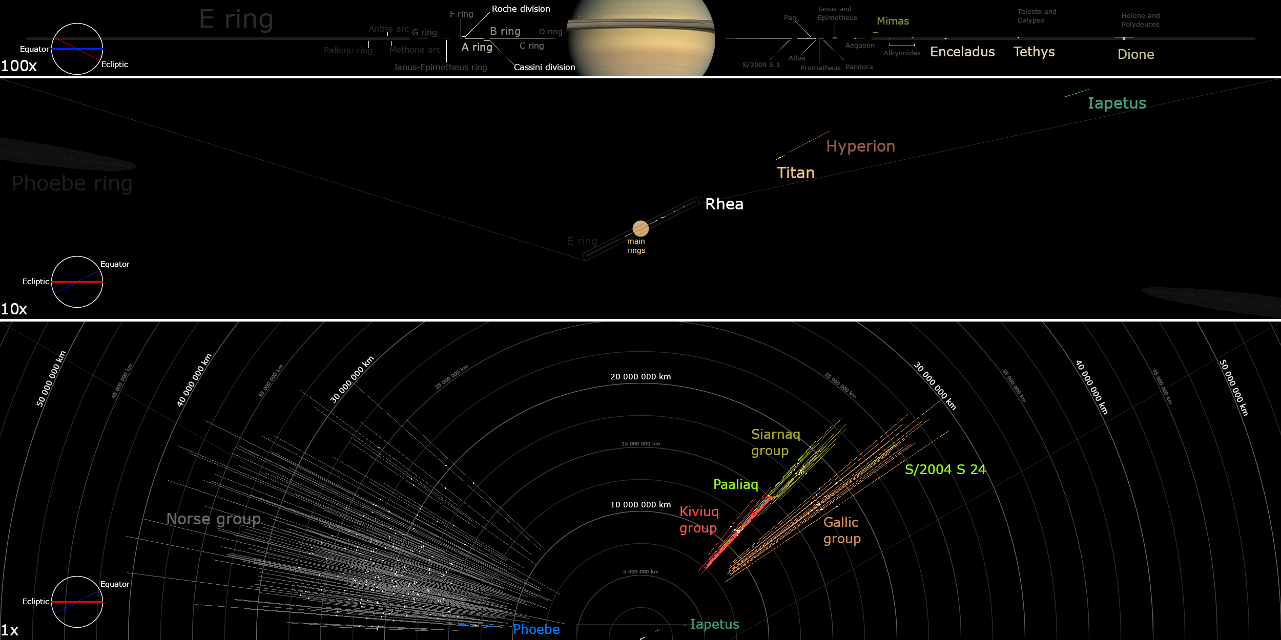 A diagram of Saturn's entire moon system and ring system: bottom panel: The outer irregular moons of Saturn, with a scale of 1 pixel = 40,000 km. Moon groups, as well as ungrouped moons, are individually listed. They are graphed by their inclination, as well as the closest/furthest points in their orbit from Saturn (perikrone and apokrone) middle panel: The middle moons of Saturn, with a scale of 1 pixel = 4,000 km. Although Saturn's middle moons can be resolved, the inner moons and its rings are still difficult to resolve top panel: The inner moons of Saturn, with a scale of 1 pixel = 400 km. On the left, the rings of Saturn are labeled, and on the right, the inner moons are labeled.